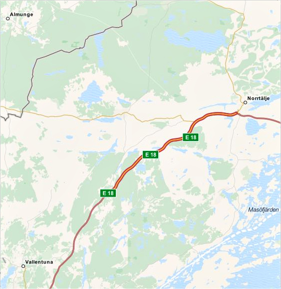 Map of the Almunge-Norrtälje-Vallentuna triangle south of Stockholm. Geographic limits of the map: N: 59.90° N S: 59.50° N W: 18.03° E E: 18.80° E